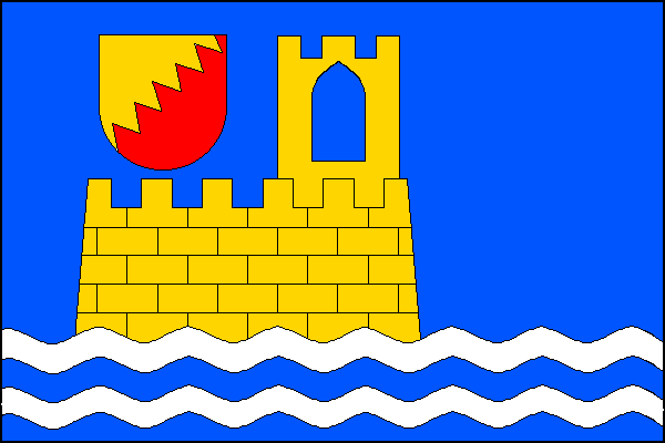 Municipal flag of Okoř village, Prague-West District, Czech Republic.